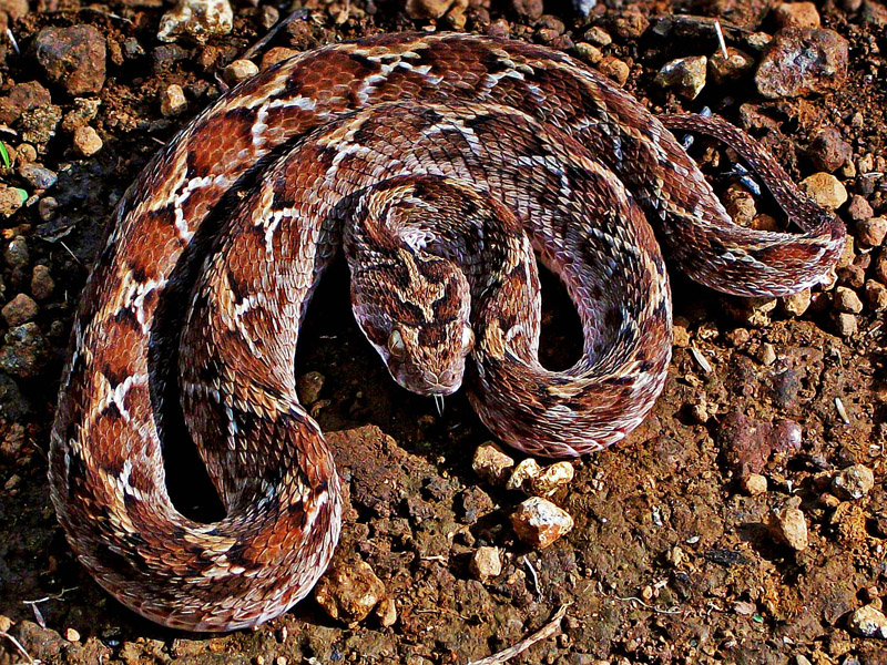 Saw-scaled Viper (Echis carinatus) in Mangaon, Raigad, Maharashtra, India